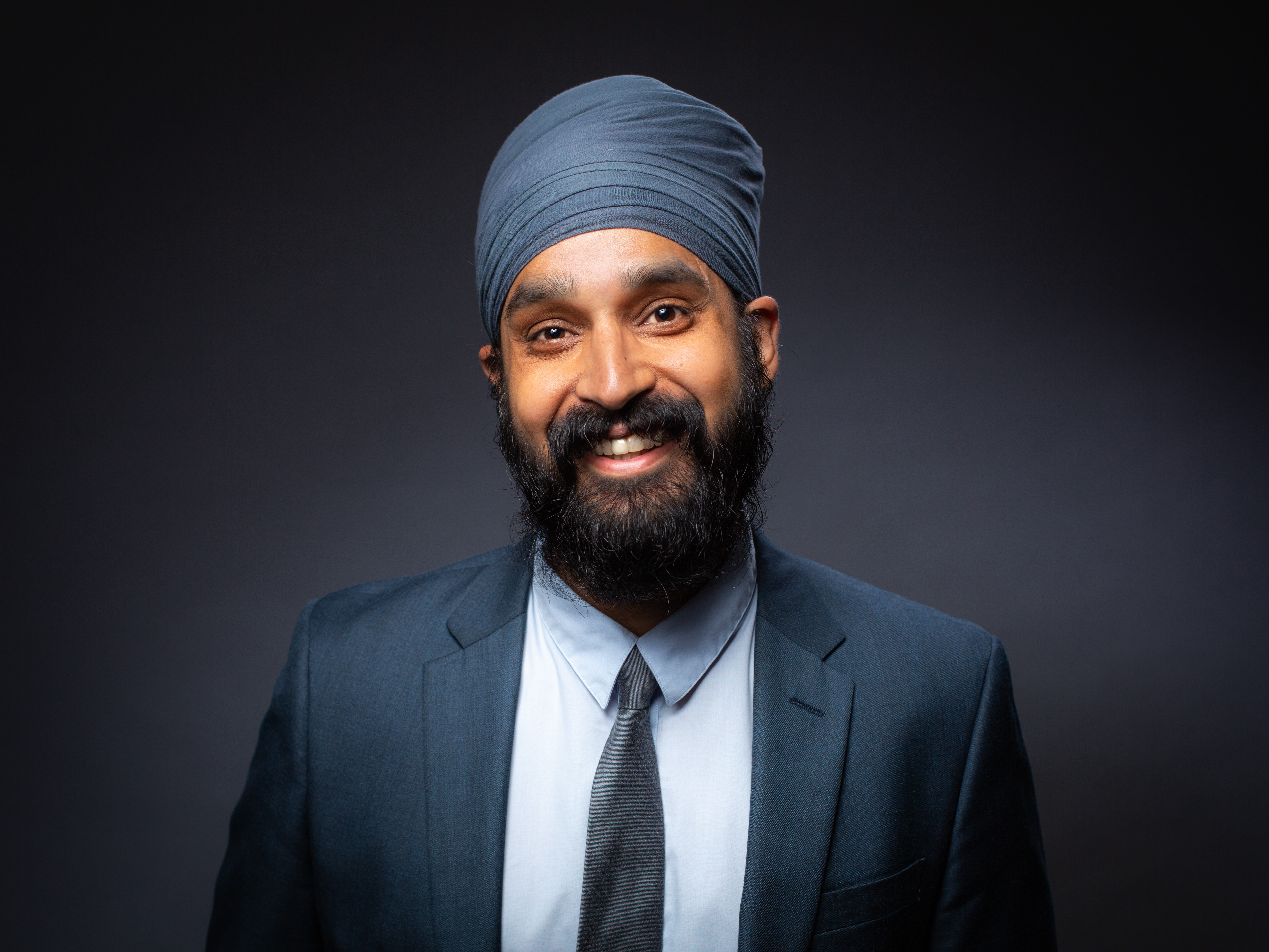 headshot